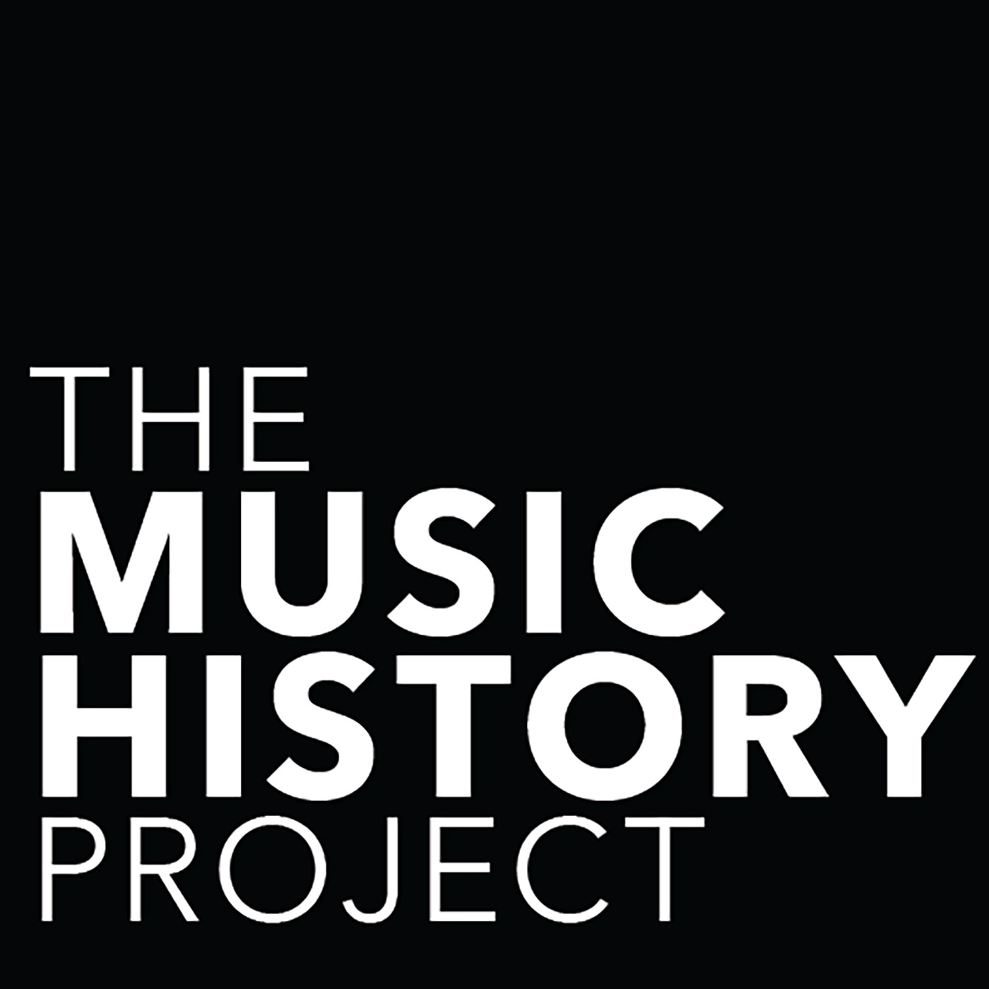 The Music History Project logo